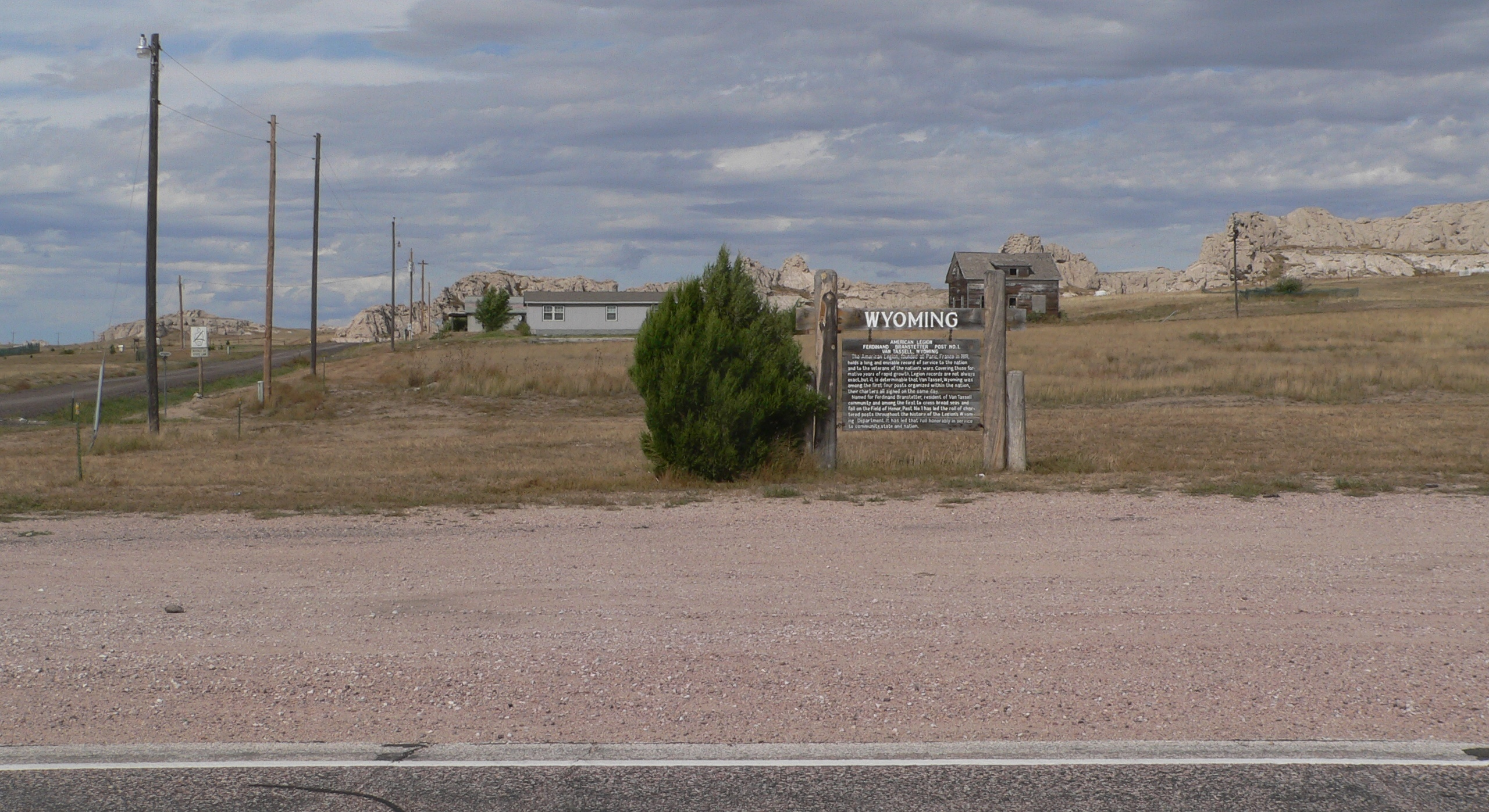 Vacant lot at corner of Oak Street and U.S. Highway 20 in Van Tassel, Wyoming, once occupied by the American Legion's Ferdinand Branstetter Post No. 1. View is from the south, across Highway 20.